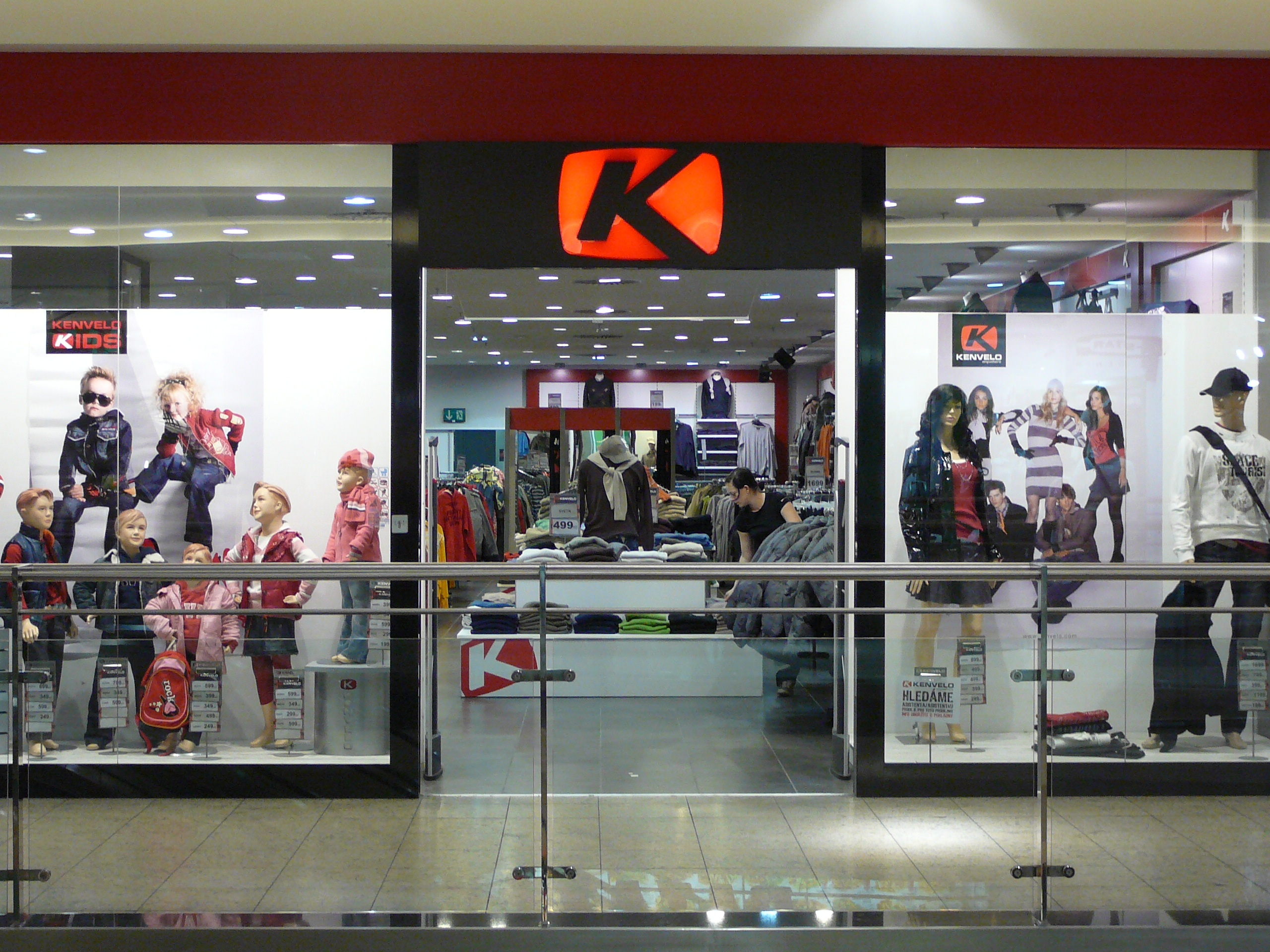 Kenvelo Kids in Vaňkovka in Brno